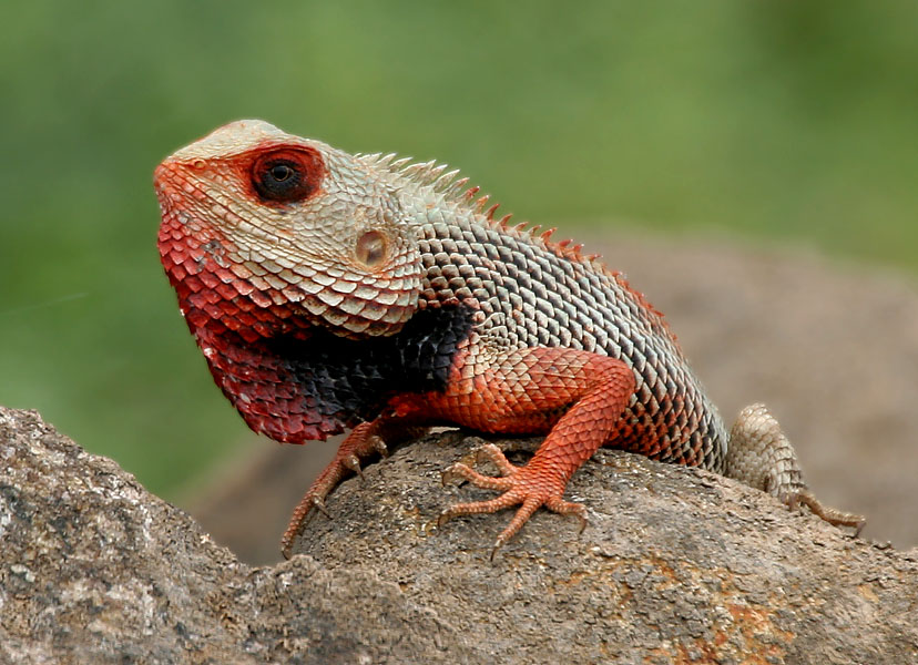 Oriental Garden Lizard or Indian Garden Lizard Calotes versicolor at Pocharam lake, Andhra Pradesh, India.